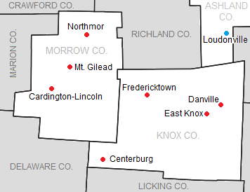 Map displaying the eventual members of the KMAC.